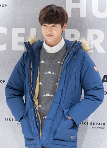 Park Hyung-sik at HugDown Celebration, on Dec 11, 2014